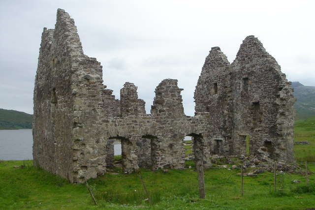 Calda House After extensive maintenance in 2006.